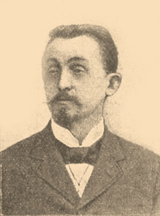 Illustration from Brockhaus and Efron Jewish Encyclopedia (1906—1913)